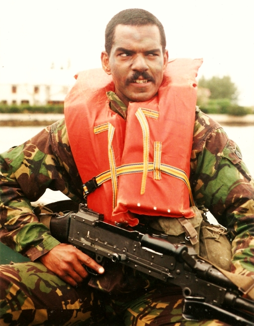 A Corporal of the Royal Bermuda Regiment, armed with a GPMG, aboard a motor boat. He wears a DPM Windproof smock. Source Uploaded by author Seán Pòl Ó Creachmhaoil 17:34, 15 November 2006 (UTC)